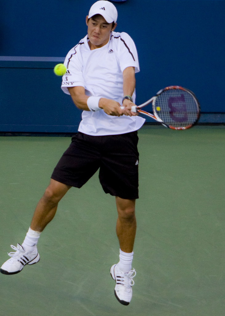 a tennis player from Japan,錦織圭（Kei Nishikori）